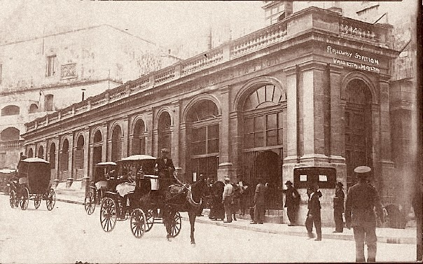 Old Valletta Railway Station (Reception), after 1894